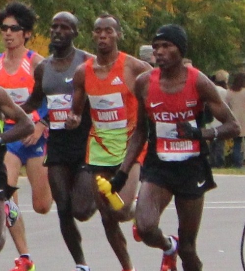 2012 Chicago Marathon - Dadi Yami - Shami Dawit - Laban Korir